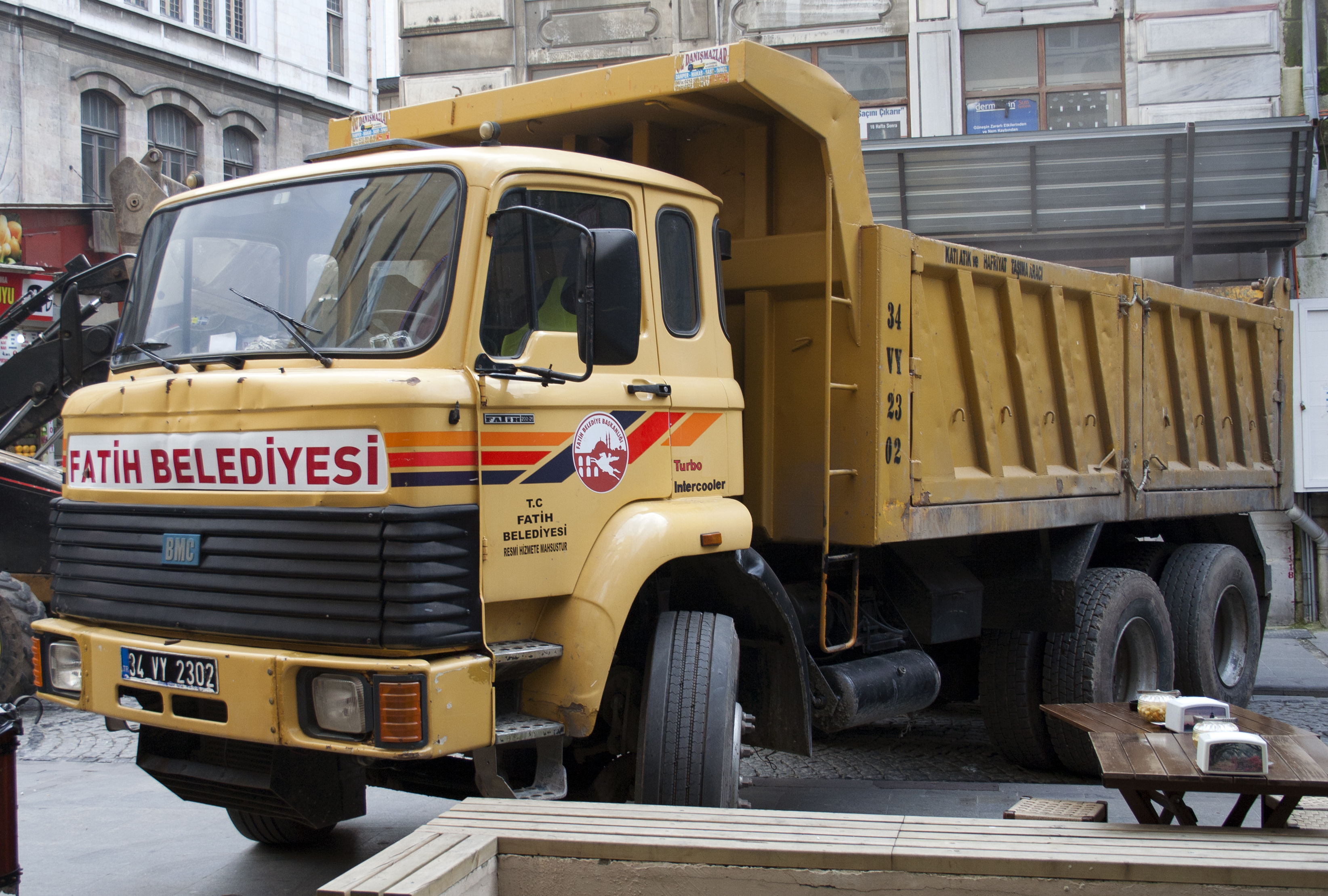 A BMC Fatih truck, conveniently enough belonging to the Fatih municipal government. Turbocharged and intercooled, this is either a 162.25 or a 200.26 - the left and the right doors have different id plates!